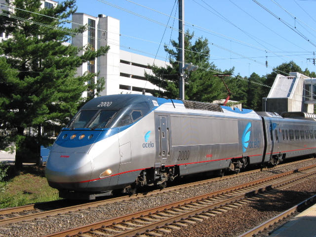 Acela Express power car 2000 at BWI Rail Station